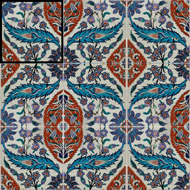 3D texture addressing mode: mirrored repeat. For use in Arabic Texture Addressing article on Wikipedia. Source tile is from an image from Wikimedia Commons, fully available for use by public domain.